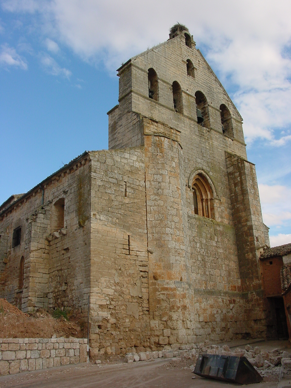 Bell gable on the church of San Andrés, in the municipality of Presencio, Burgos (Spain).